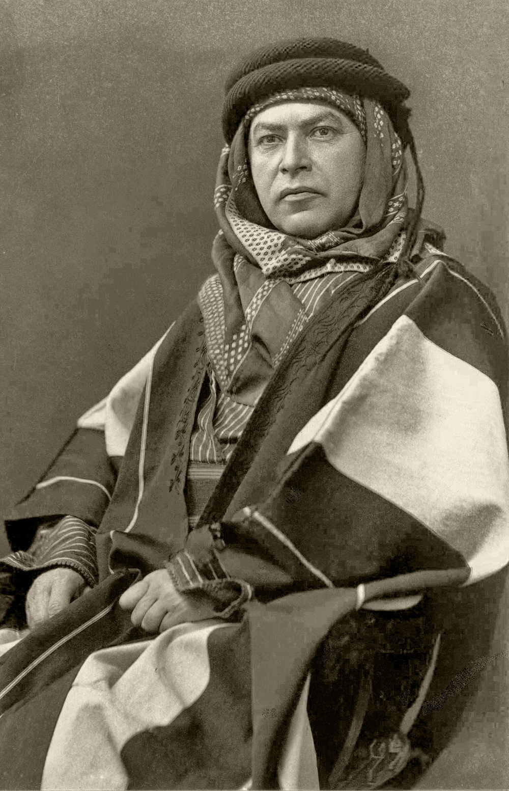 Picture of Alter Levin